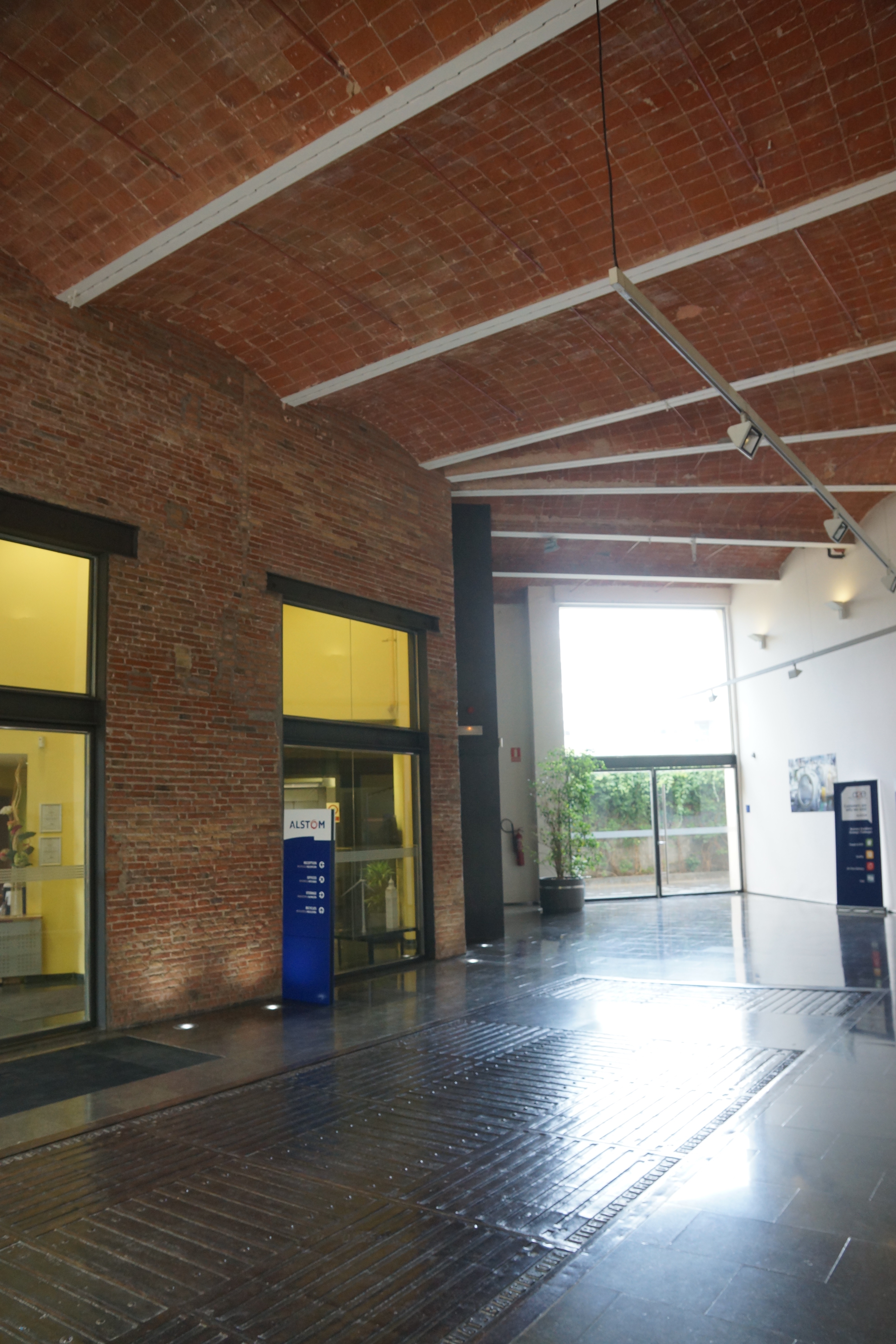 Barcelona (Poblenou), Catalonia: Catalan vaultn the central entrance of the former Metales y Platerías Ribera factory, Can Culleres